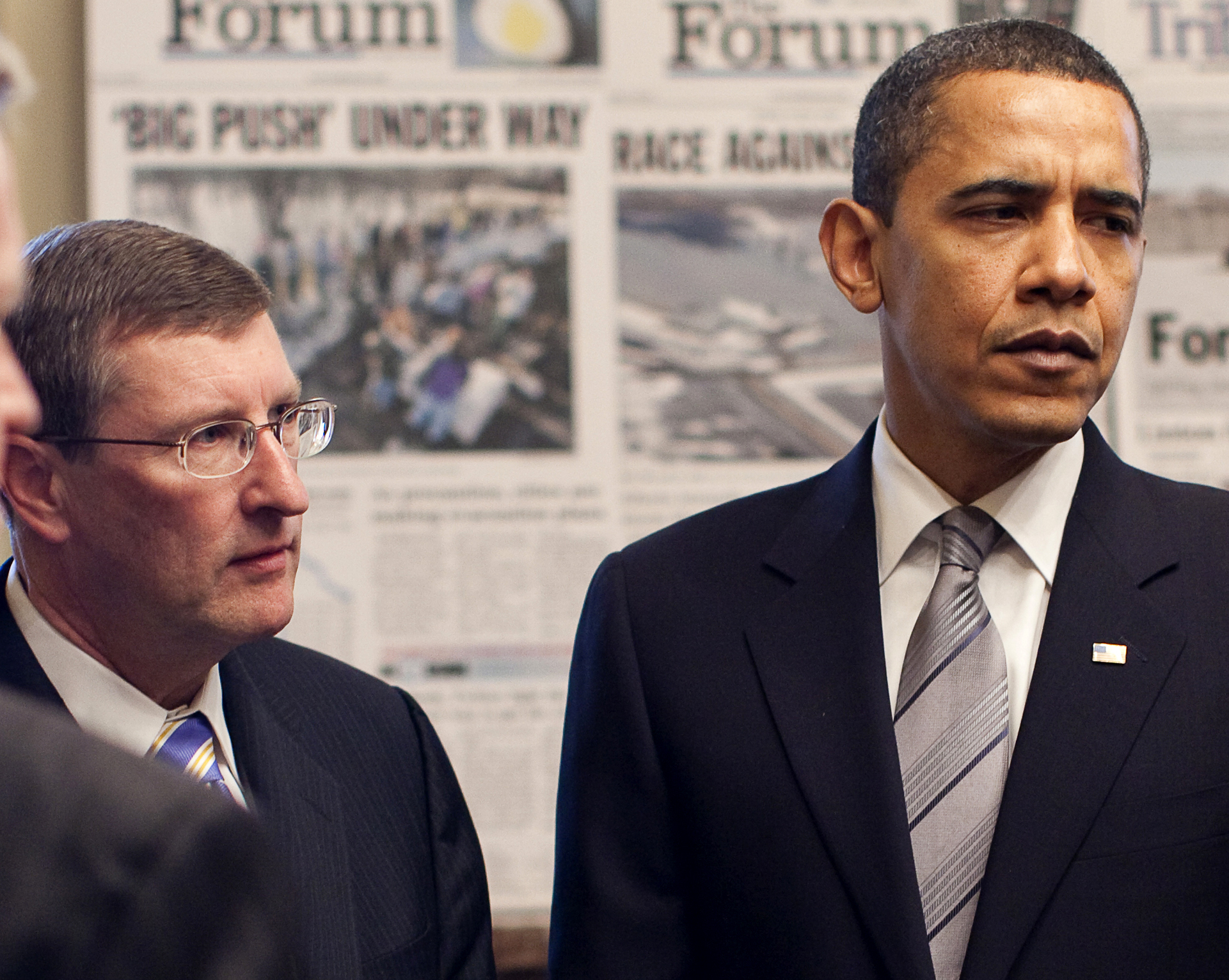 President Barack Obama meets Wednesday, March 25, 2009, at the U.S. Capitol with representatives from North Dakota and Minnesota, areas hard hit by flooding. With the President in front of a display of area news coverage are, from left, Rep. Collin Peterson, and behind him Sen. Amy Klobuchar, both of Minnesota, and Sen. Kent Conrad, Sen. Byron Dorgan and Rep. Earl Pomeroy, all of North Dakota.